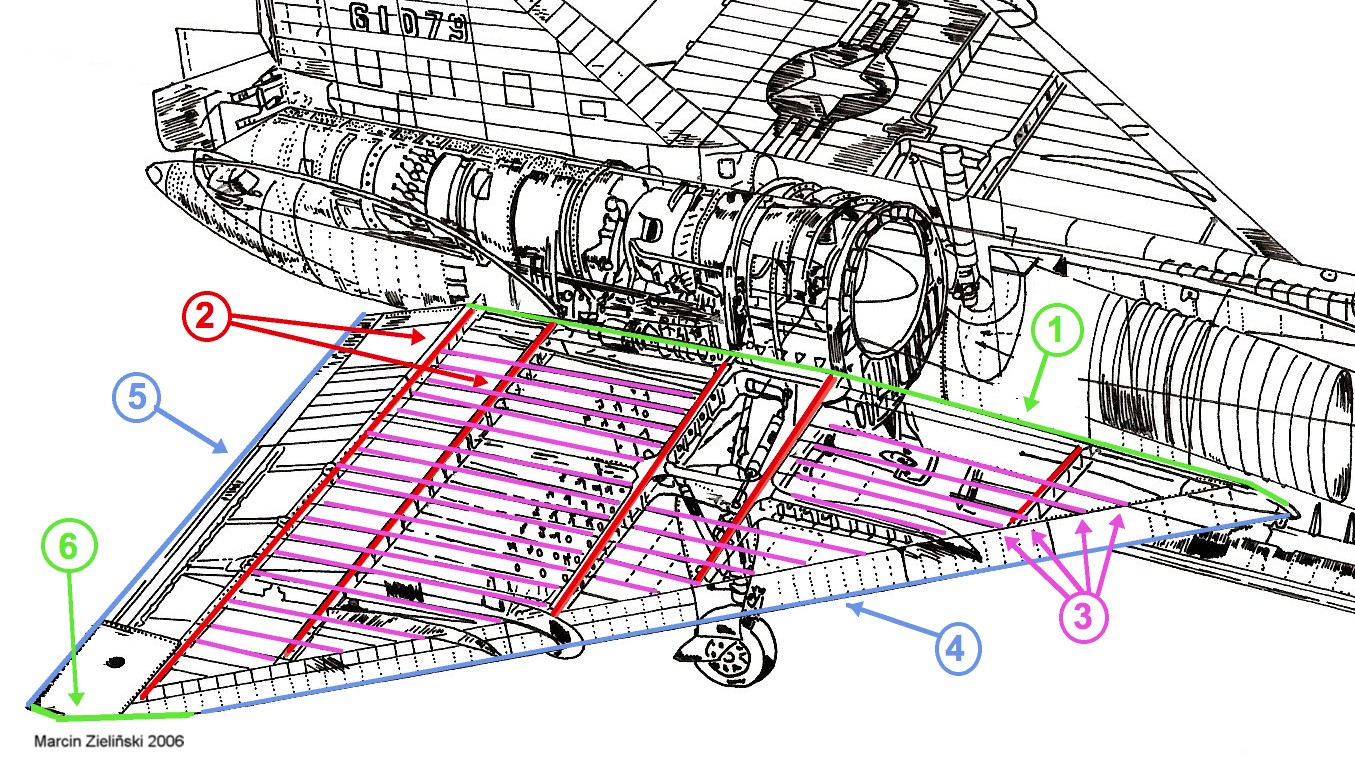 Structure of an aircraft wing : (1) Wing root (2) Spars (3) Ribs (4) Leading edge (5) Trailing edge (6) Wing tip